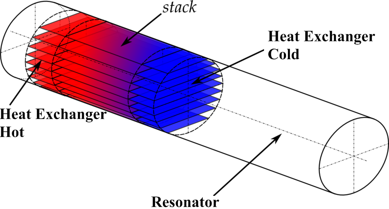 A schematic representation of a thermoacoustic hot-air engine. The Heat exchanger (heat bridge not shown) has a hot side which conducts heat to or from a hot heat reservoir – and a cold side (cold bridge not shown) that conducts heat to or from a cold heat reservoir. The electro-acoustic transducer, e.g. a loudspeaker, is not shown.